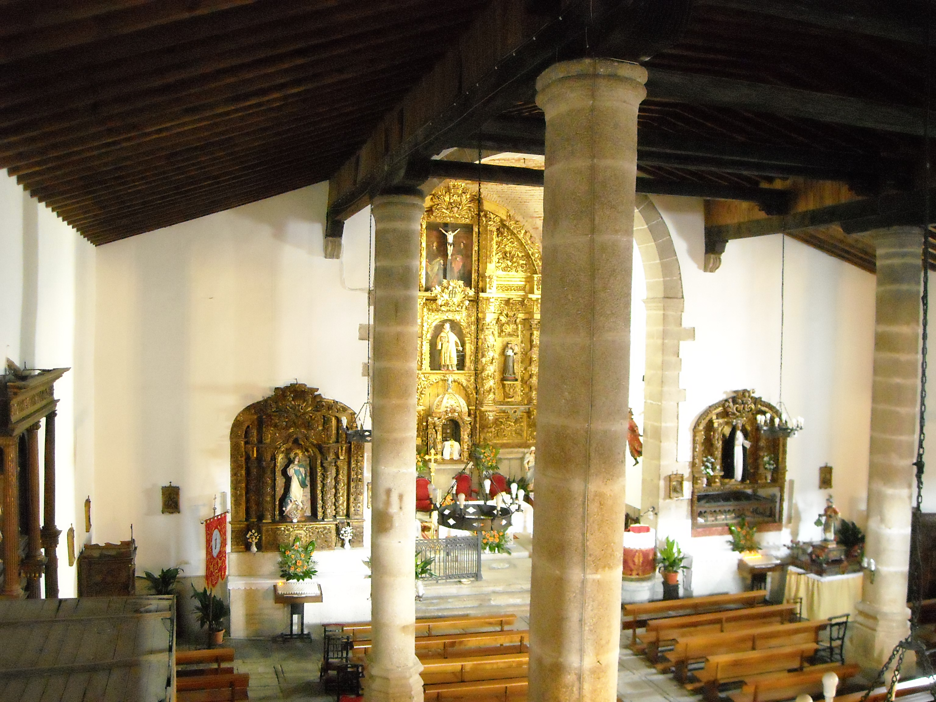 Church of St. Lawrence, Garganta la Olla, Cáceres, Spain